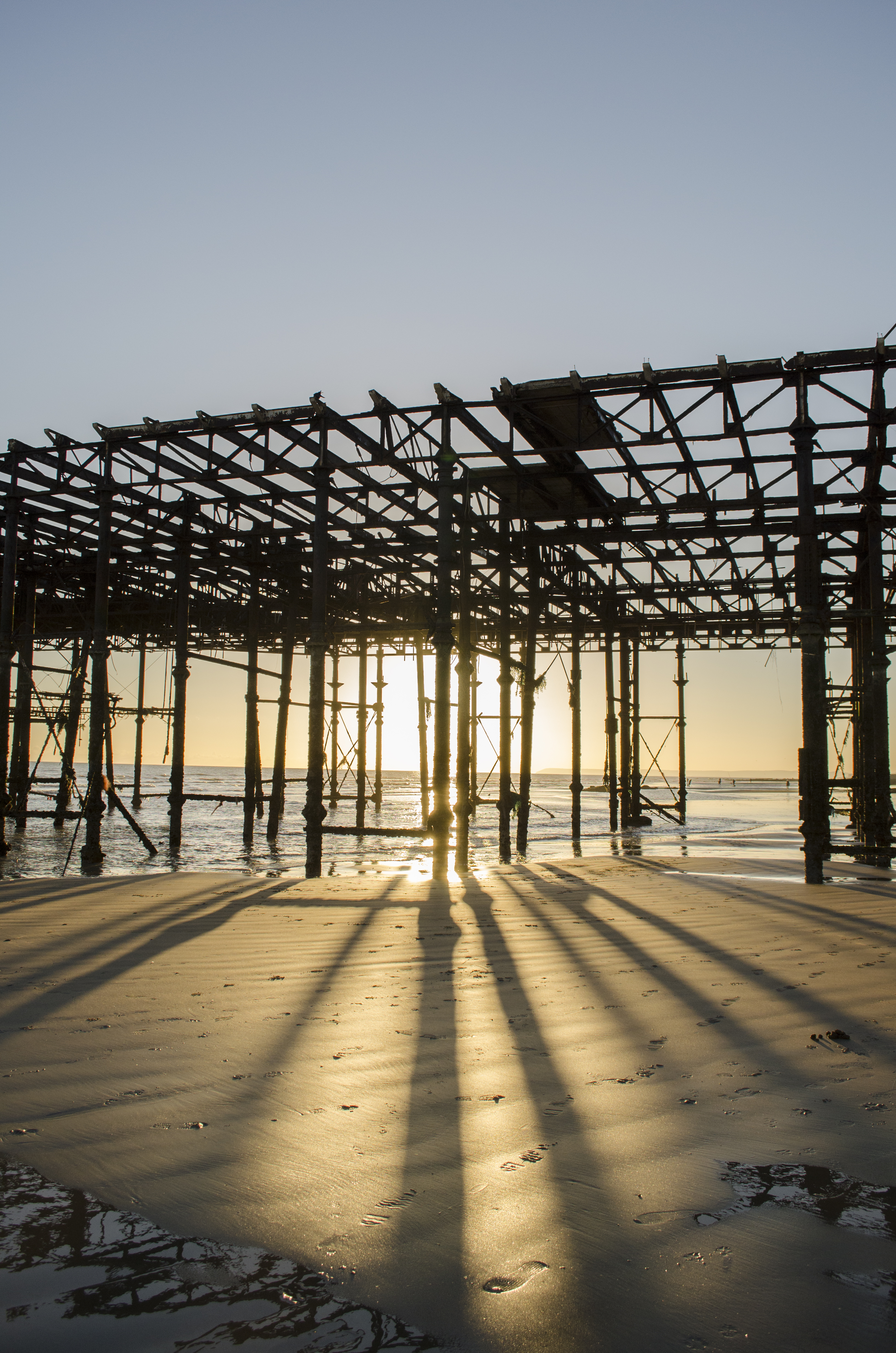 This photograph was taken after the devastating fire of 2010, which destroyed most of the pier.